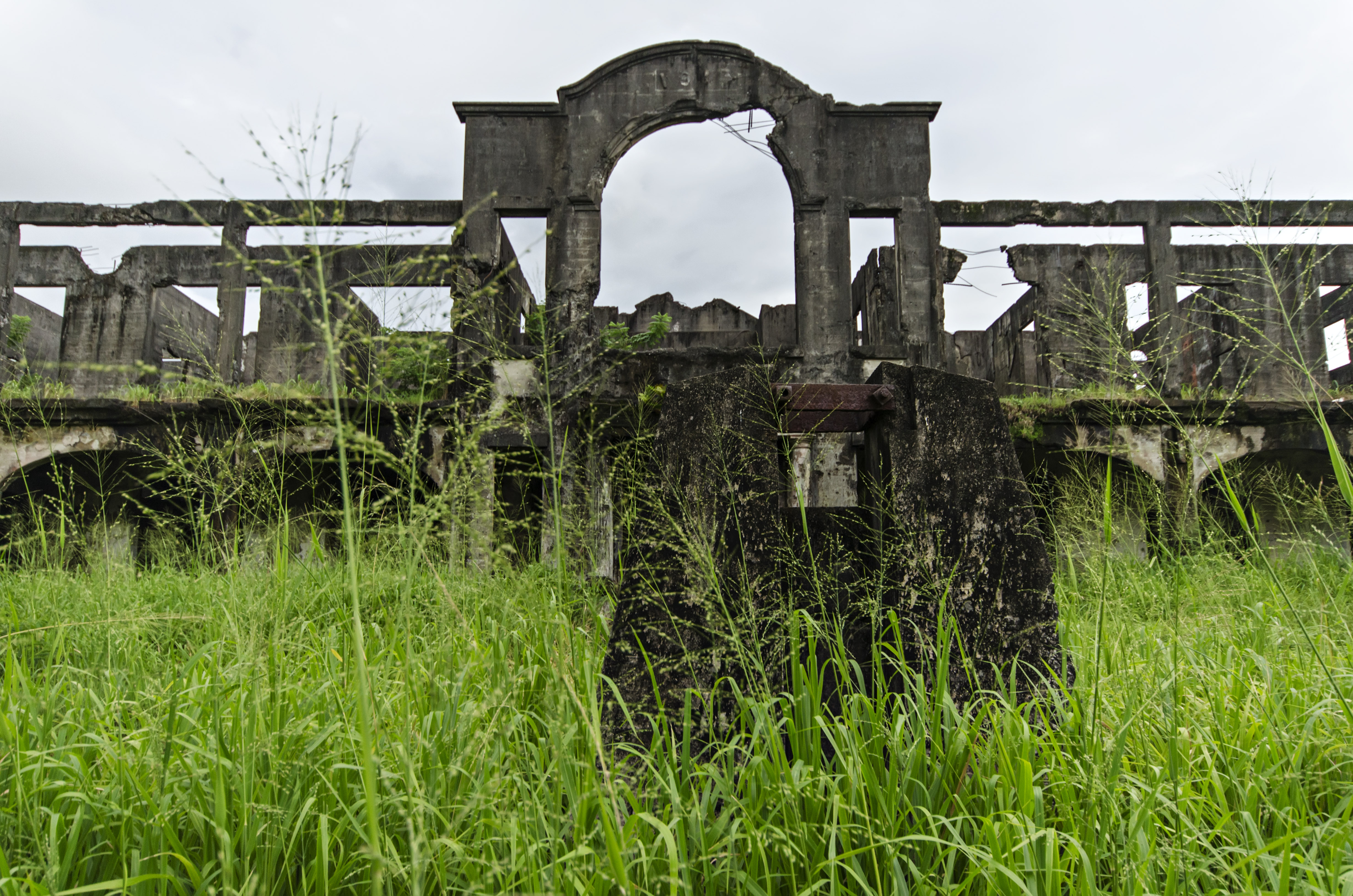 This is the old hospital of Corregidor before it was bomb by the Japanese.